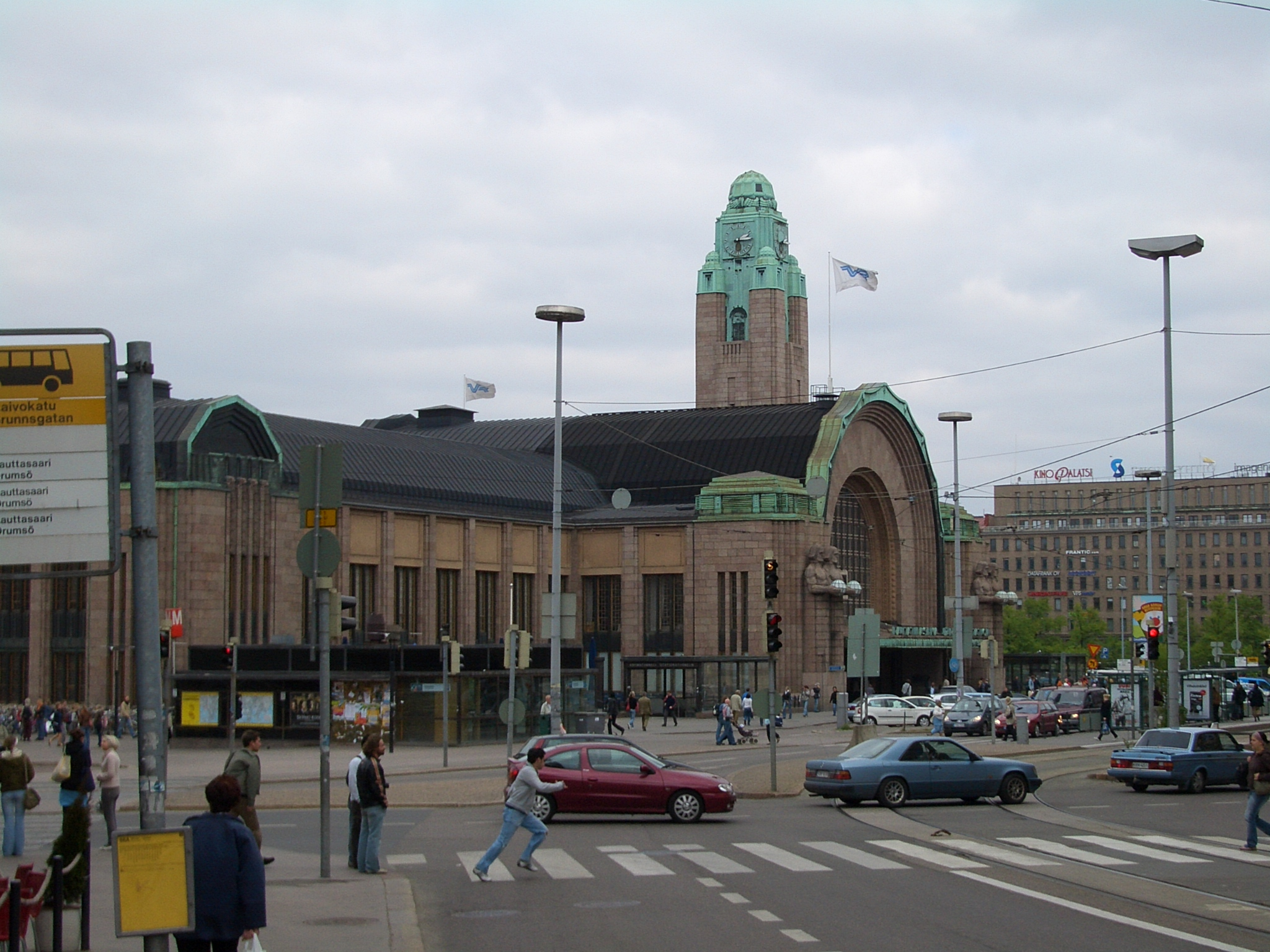 The main Helsinki railway station is the hub of the national passenger rail network.